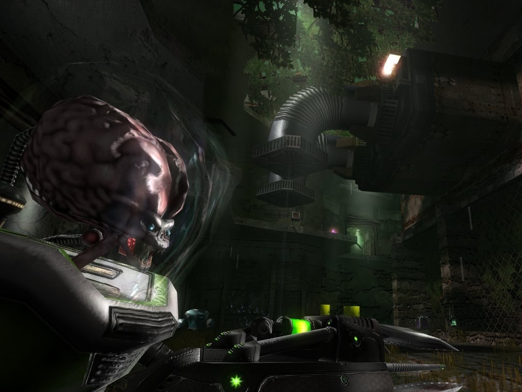 Screenshot from CodeRED: Alien Arena.